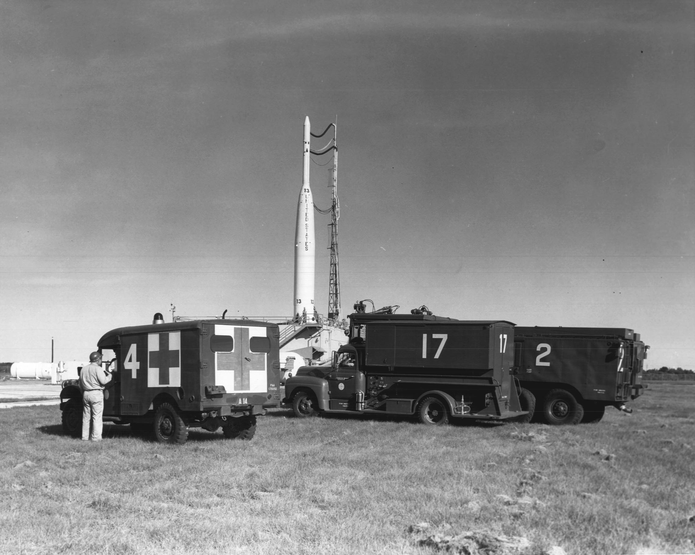 Thor Delta A launch vehicle with Explorer 14 satellite on-board (Oct. 2, 1962). Pre-launch view of Thor Delta 345 [13] with S3-A payload on board.